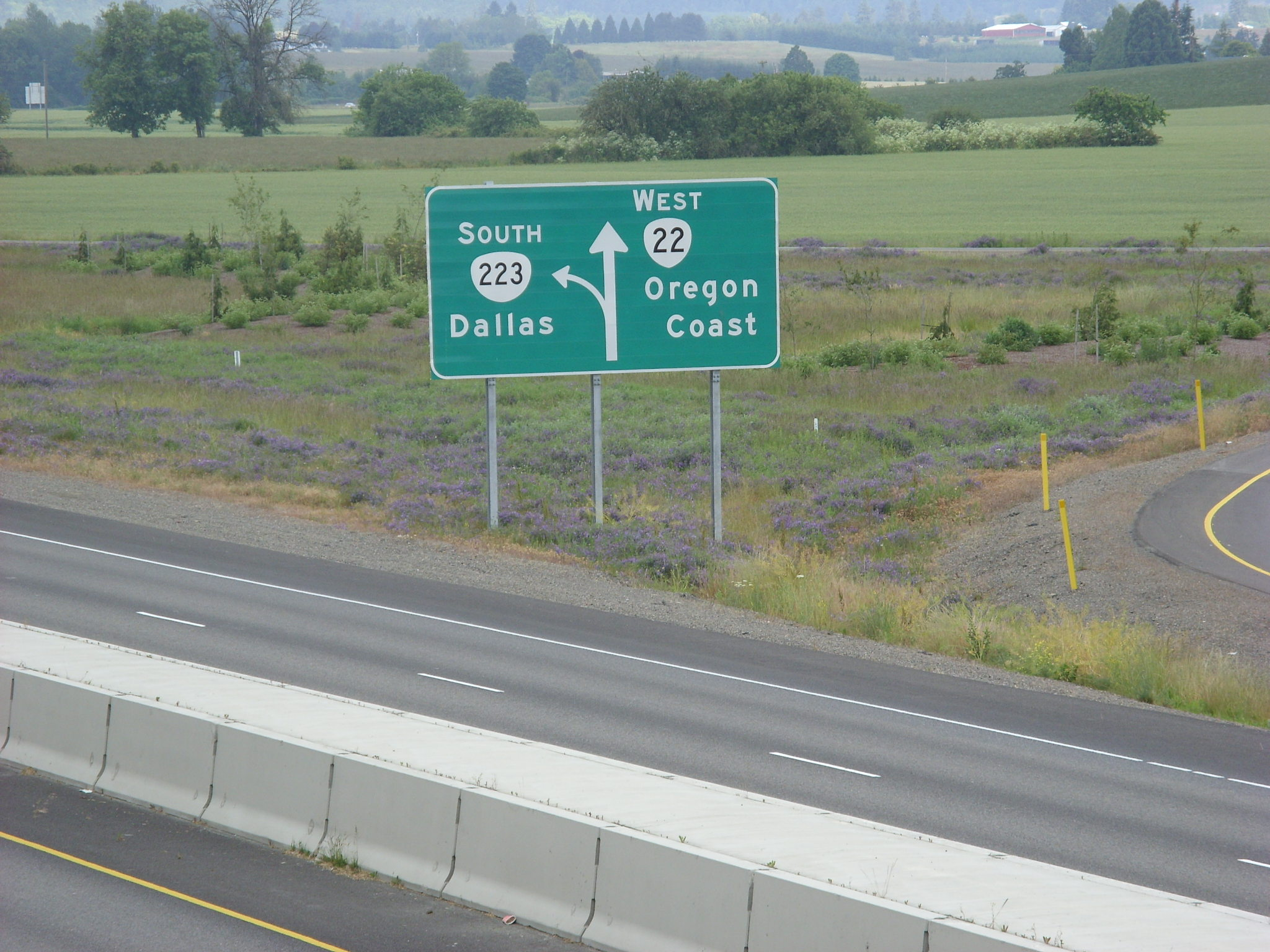 Oregon State Highway 22 (Willamina-Salem Highway) intersects Oregon State Highway 223 in Polk Station.